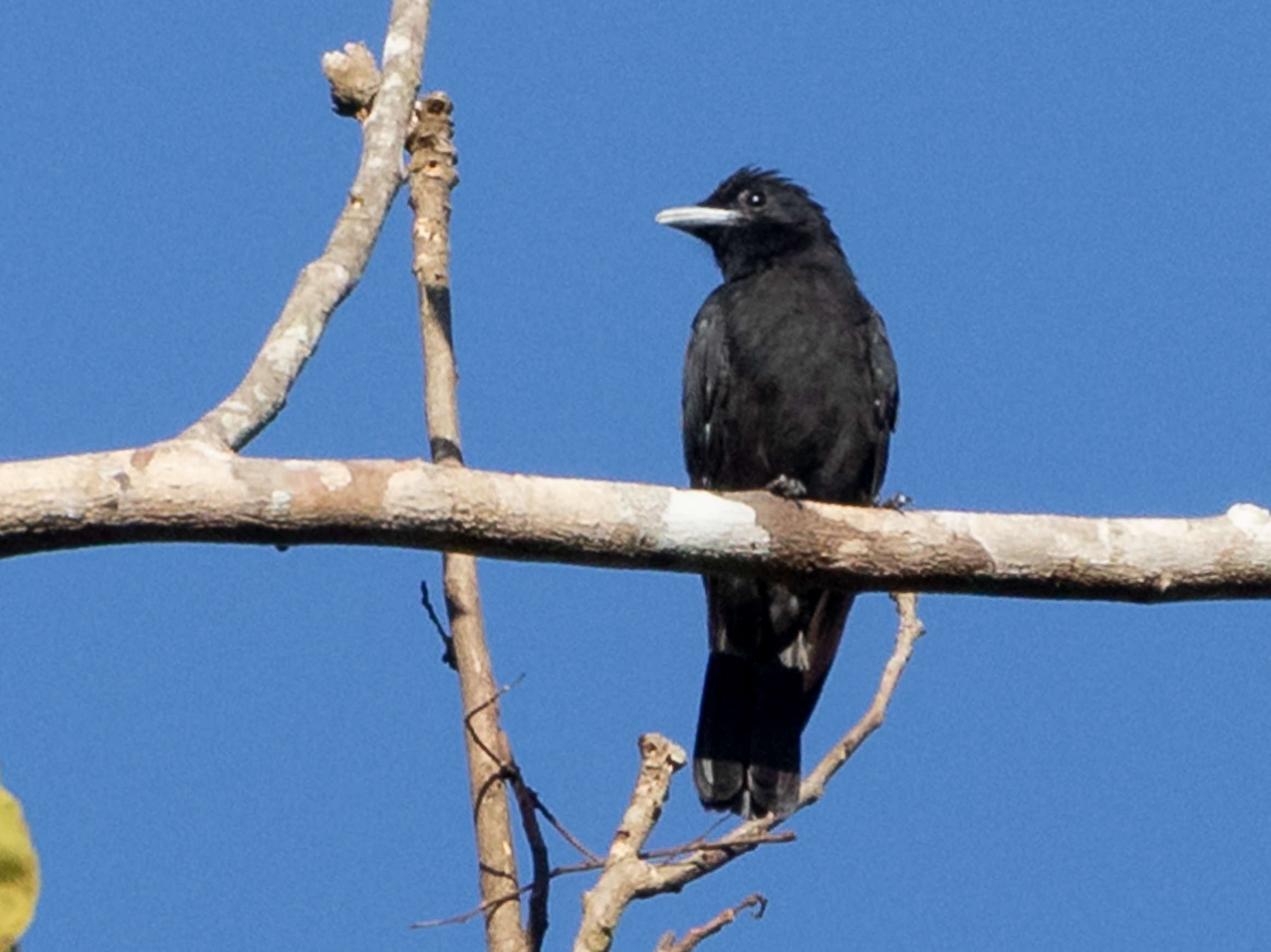 Purple-throated Fruitcrow (female); Parauapebas, Pará, Brazil